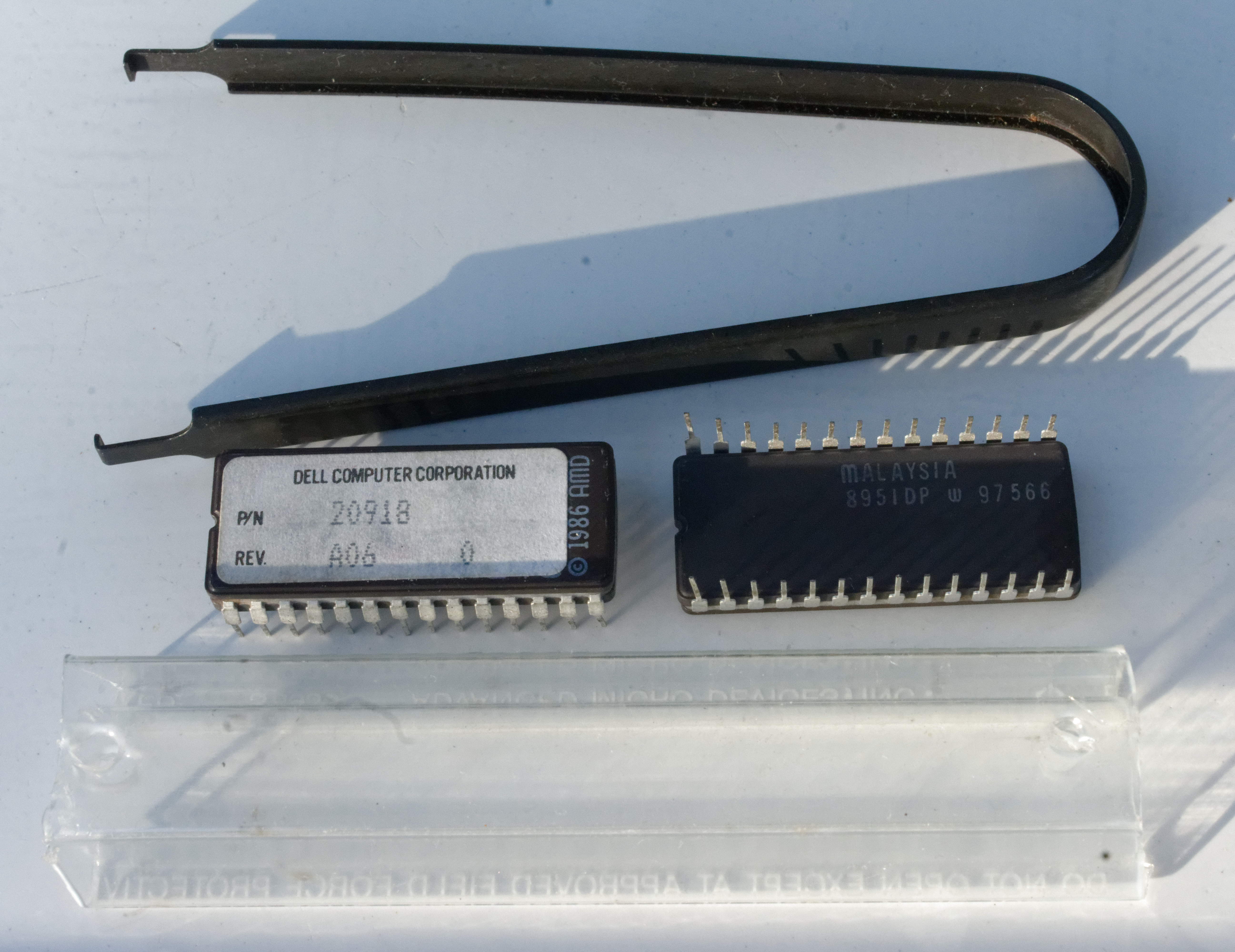 A BIOS replacement kit for a Dell 310, a late-1980s computer based on the Intel 80386. Included are two chips which came in the plastic holder and a chip puller.